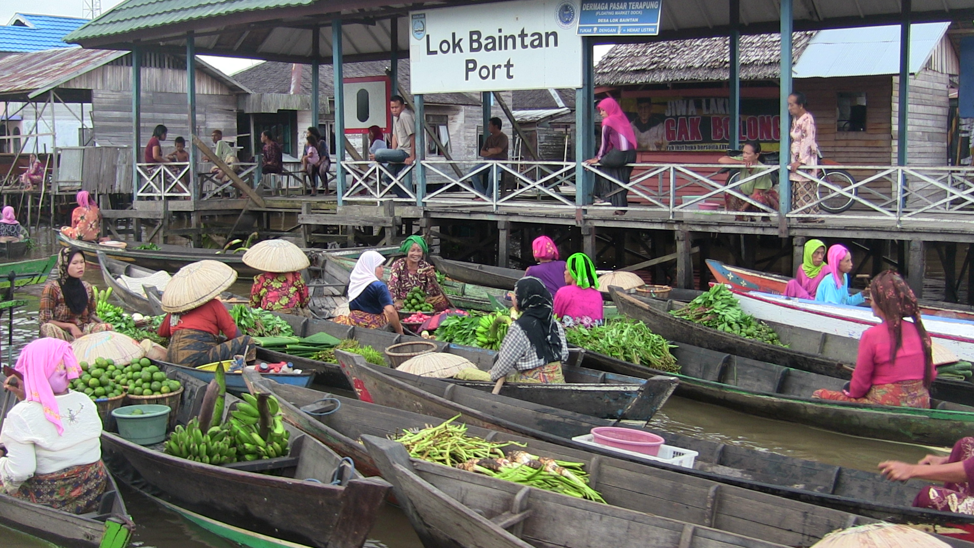 Lok Baintan Floating Market is located in Banjar Regency, South Kalimantan, less than an hour from central Banjarmasin by klotok (traditional boat).